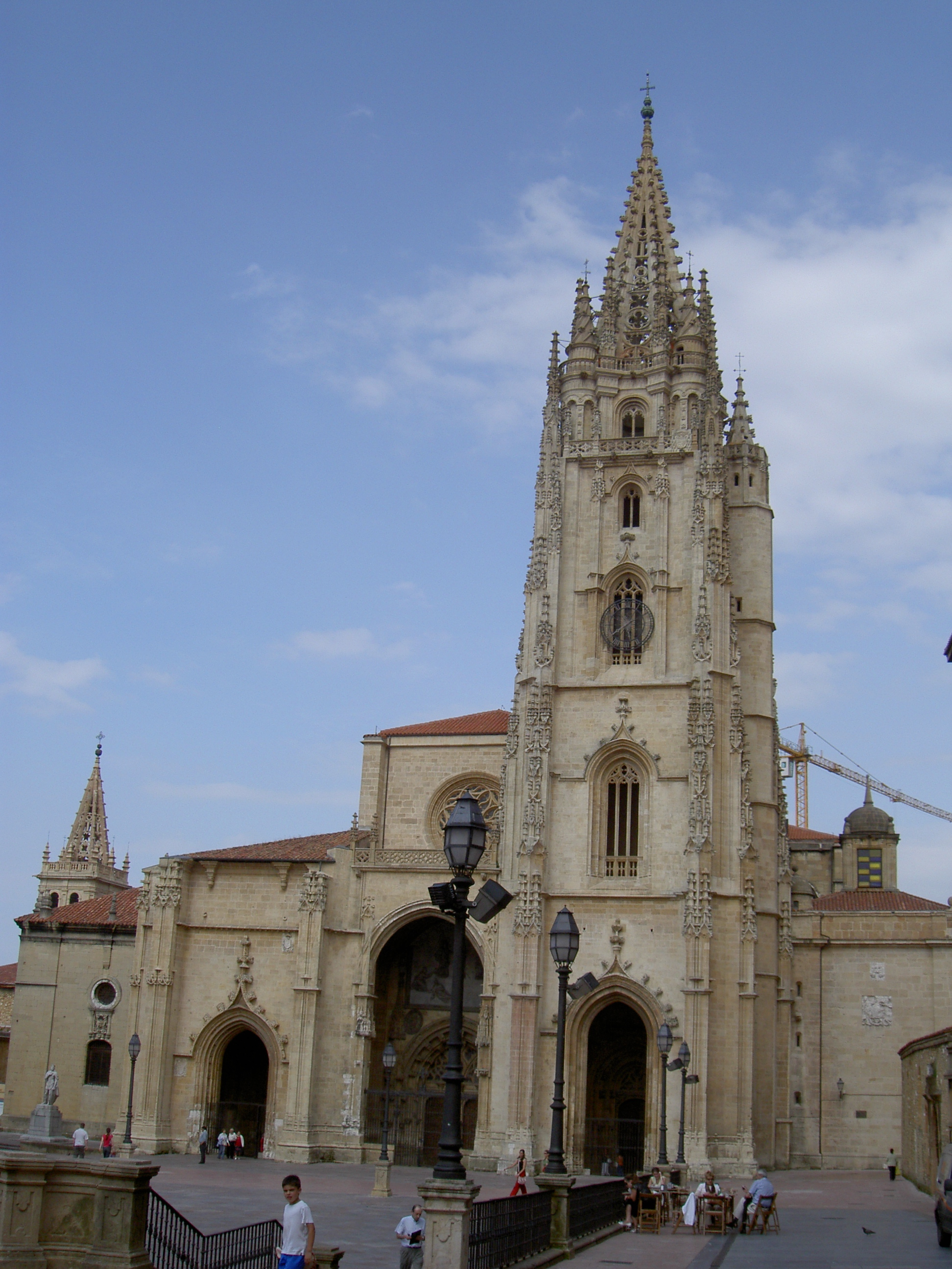 Kathedrale von Oviedo Autor: G.Wansorra